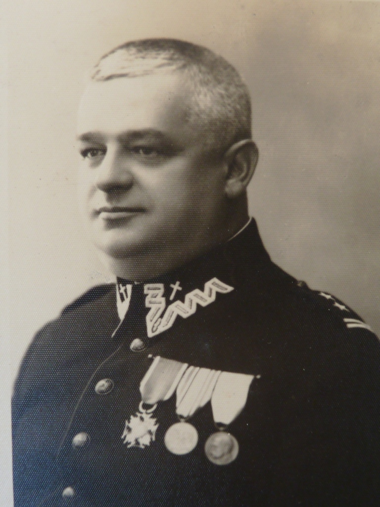 Chaplain of the Officer Cadet School for Non-commissioned Officers in Bydgoszcz, Father Lt Col Wiktor Szyłkiewicz. Murdered by the Germans in the so-called "Valley of Death" in Bydgoszcz at the beginning of World War II.